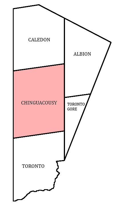 Locator map of Chinguacousy Township, Ontario within Peel County, Ontario.